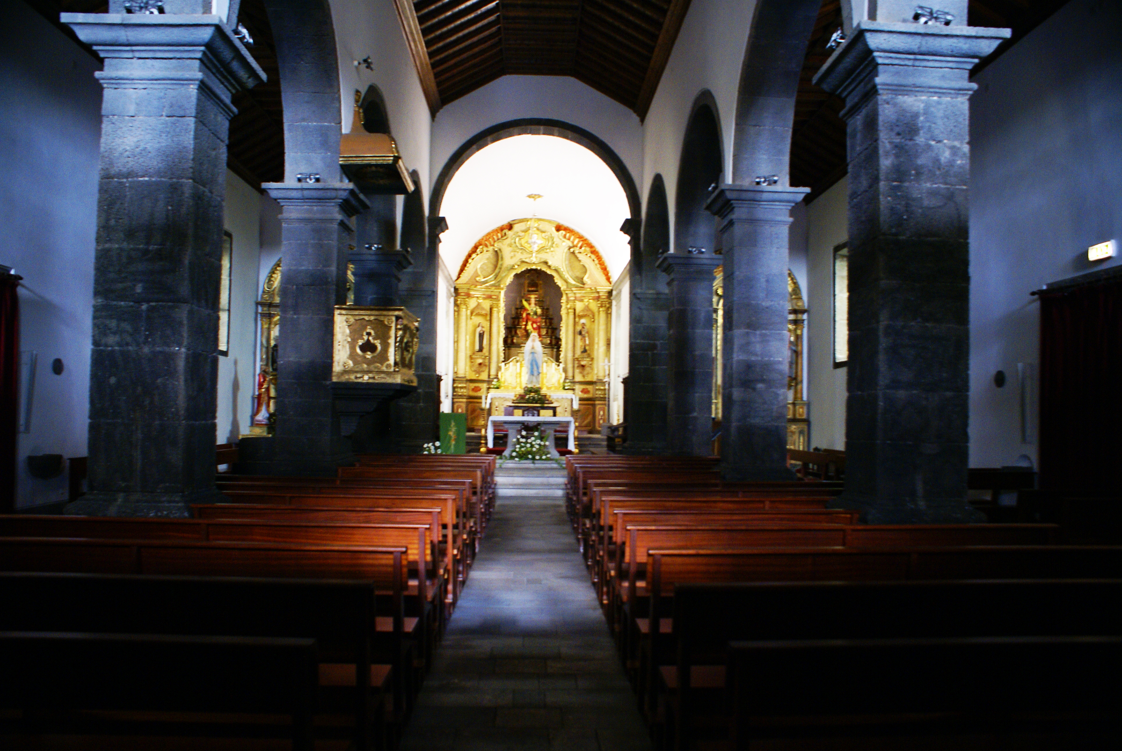 Igreja de Santa Catarina, nave central, Castelo Branco, concelho da Horta, ilha do Faial, Açores, Portugal